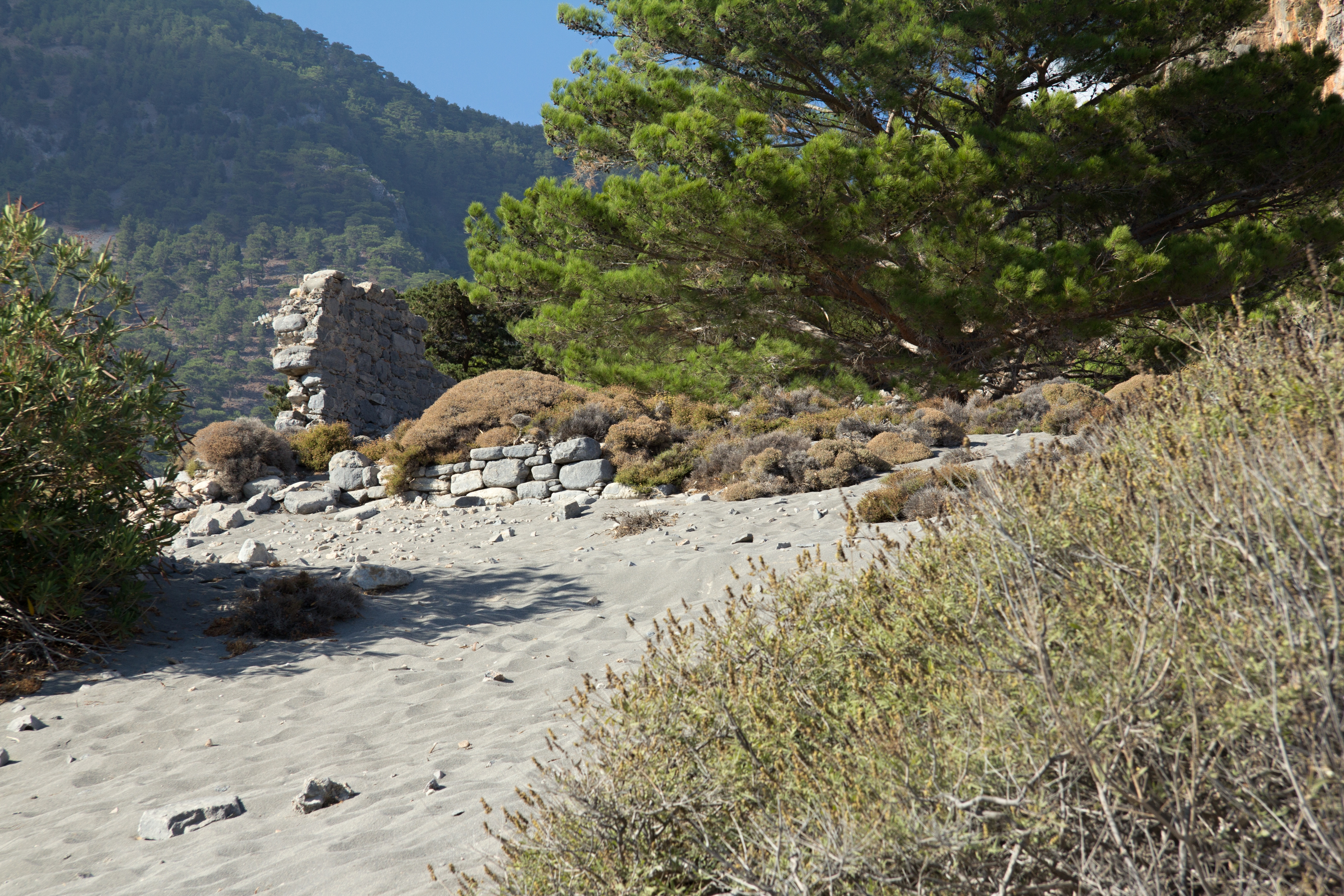 Tarra, the remains of Hellenistic town at Agia Roumeli, Crete.